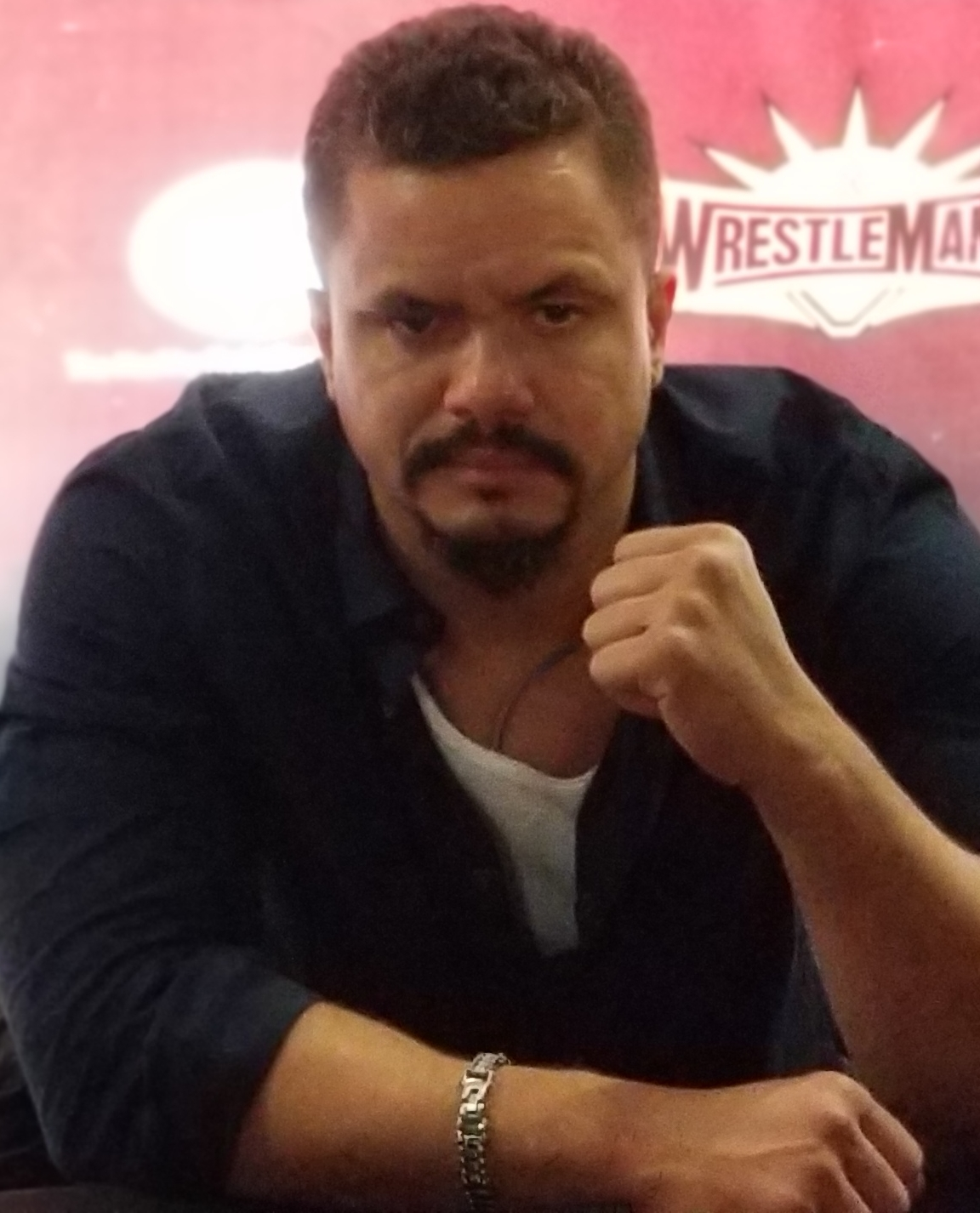 Professional wrestler, Primo Colón on April 6, 2019 at a WWE event.